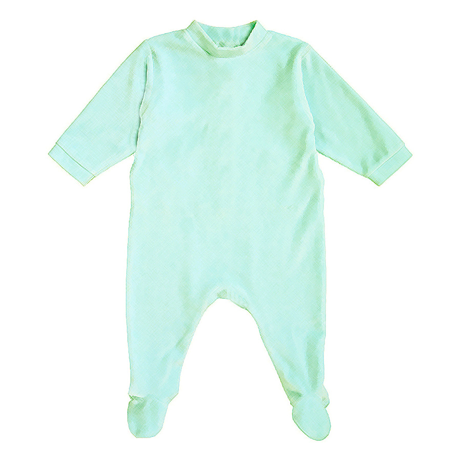 illustration for a romper suit